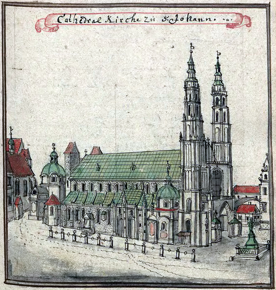 Wroclaw Cathedral